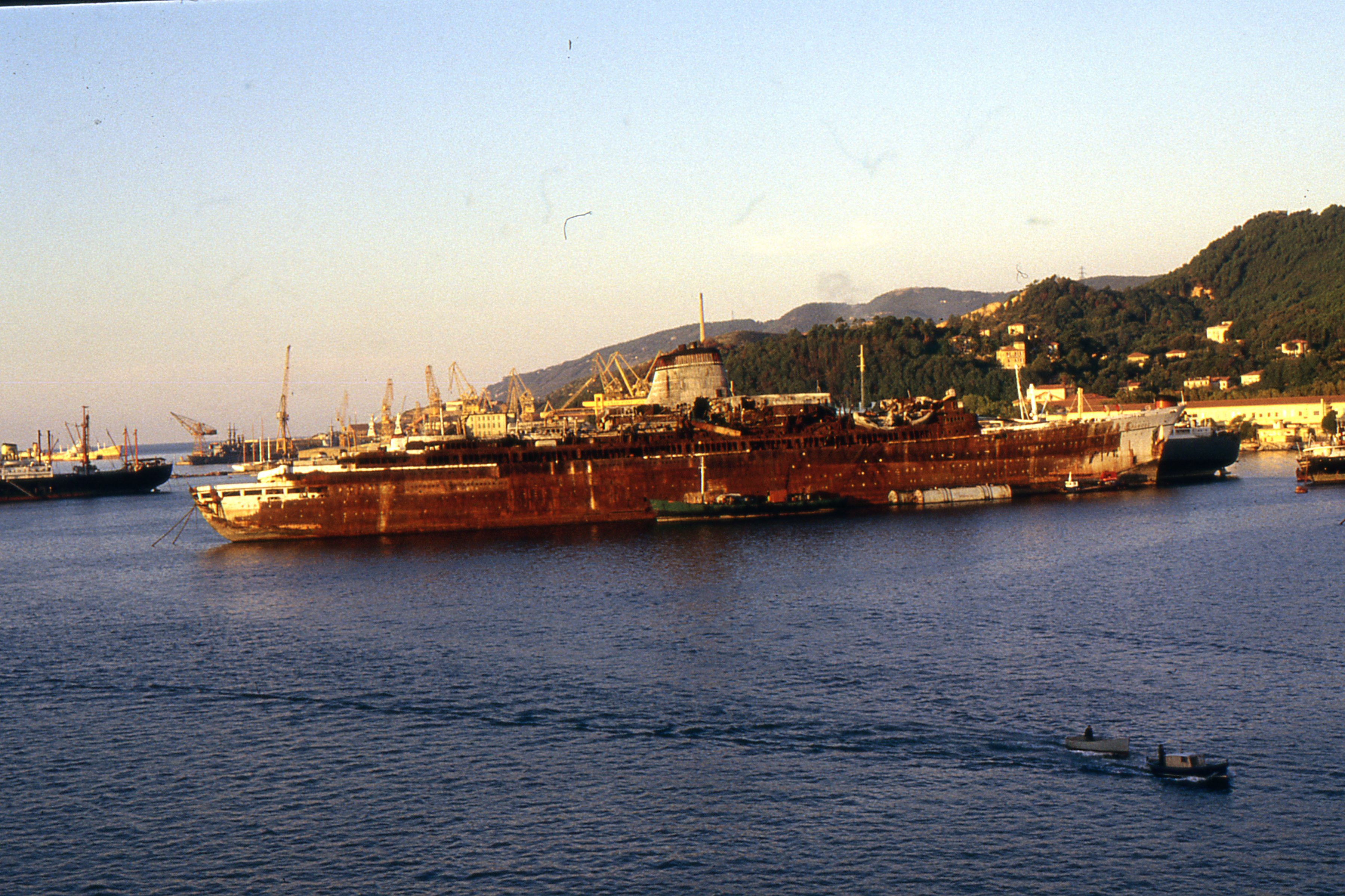 The cruise ship Leonardo da Vinci moored at La Spezia in January 1982 before her scrapping.